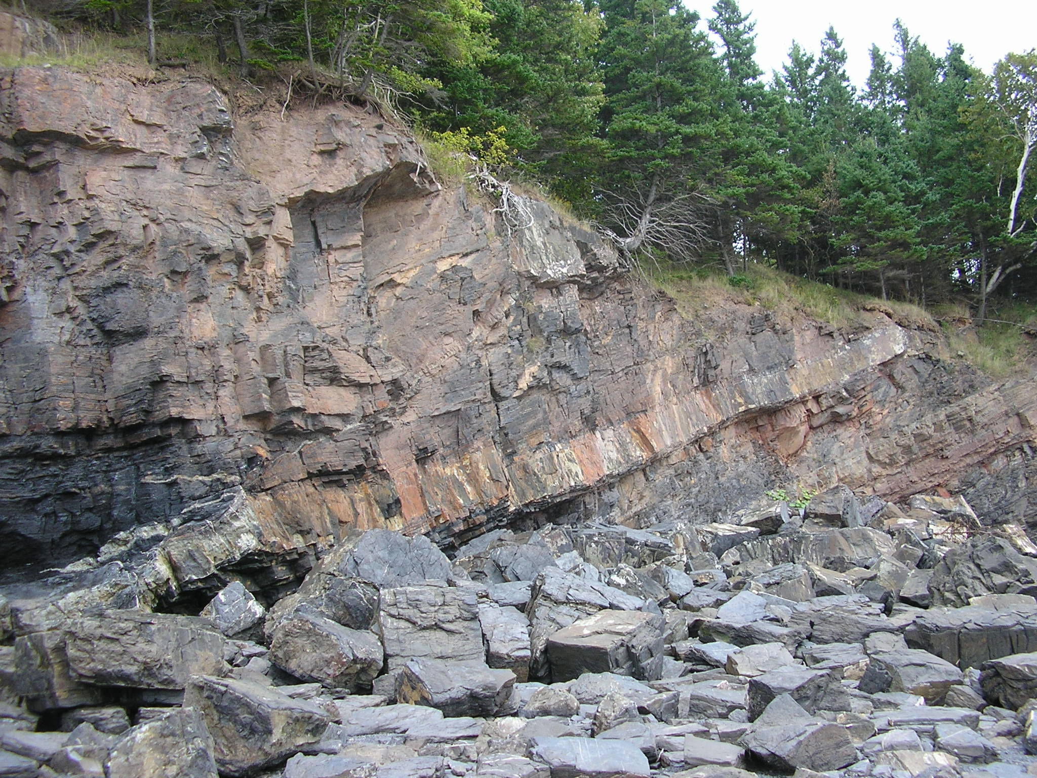 Dolerite (diabase) sill of Mid-Carboniferous age cutting shales and sandstones of the Lower Carboniferous Horton Group, Horton Bluff, near Cheverie, Minas Basin South Shore, Nova Scotia, Canada. The sill is the more resistant band.